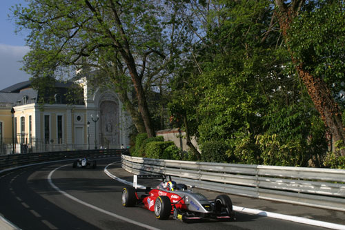 Car race in the French circuit of Pau. Atila Abreu in the F3 Euroseries race in 2005.